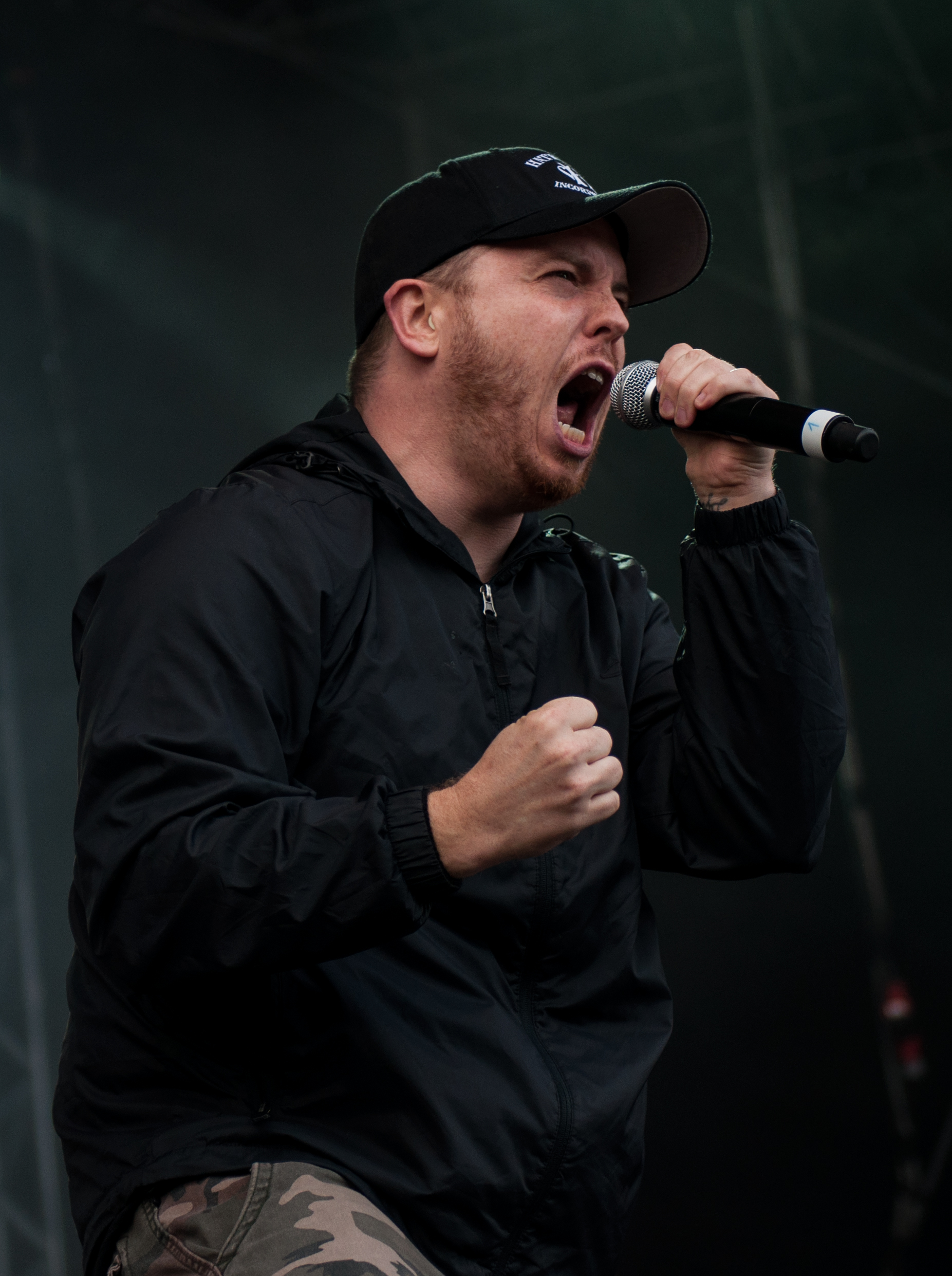 Hatebreed at Vainstream Rockfest 2014